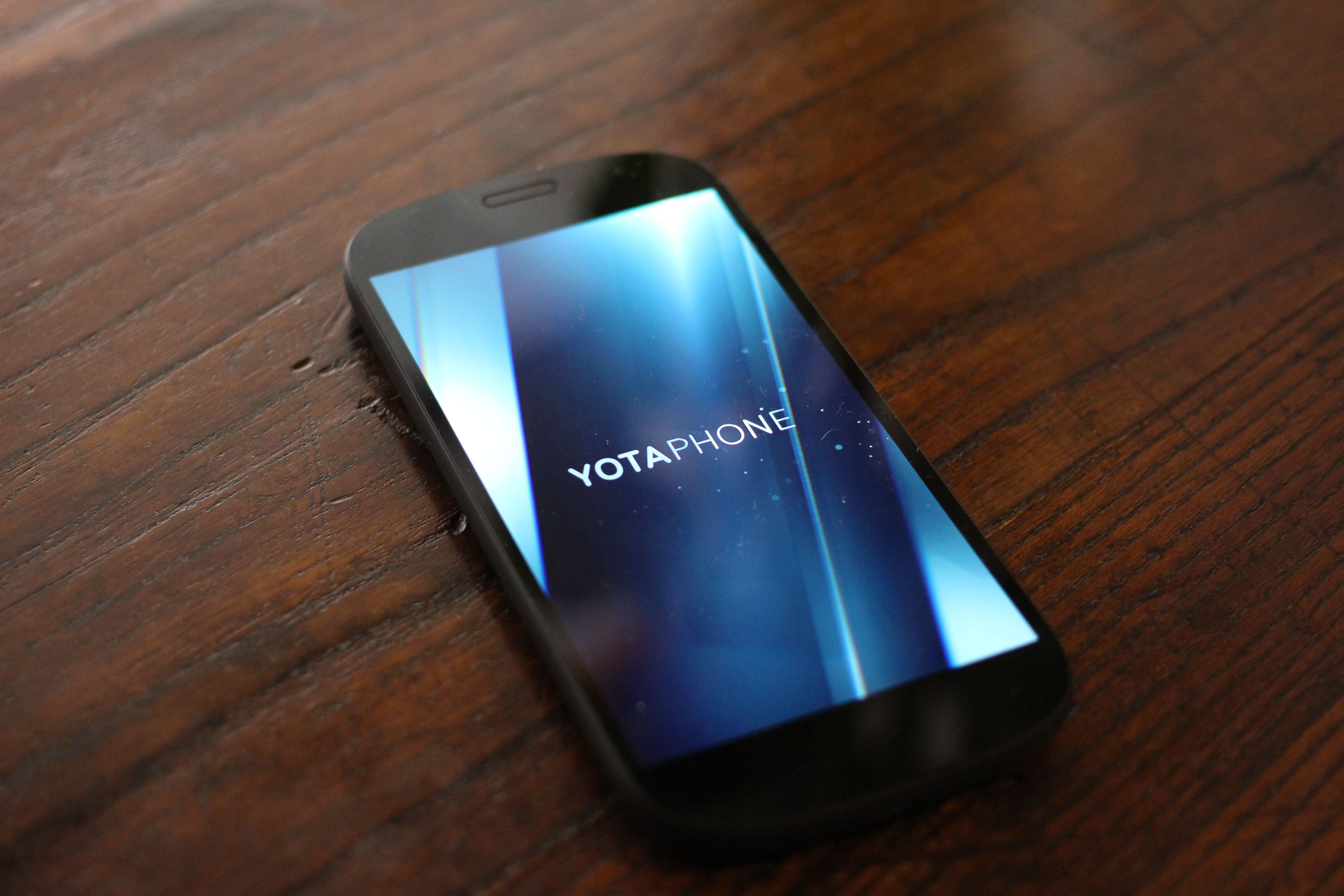 YotaPhone 2